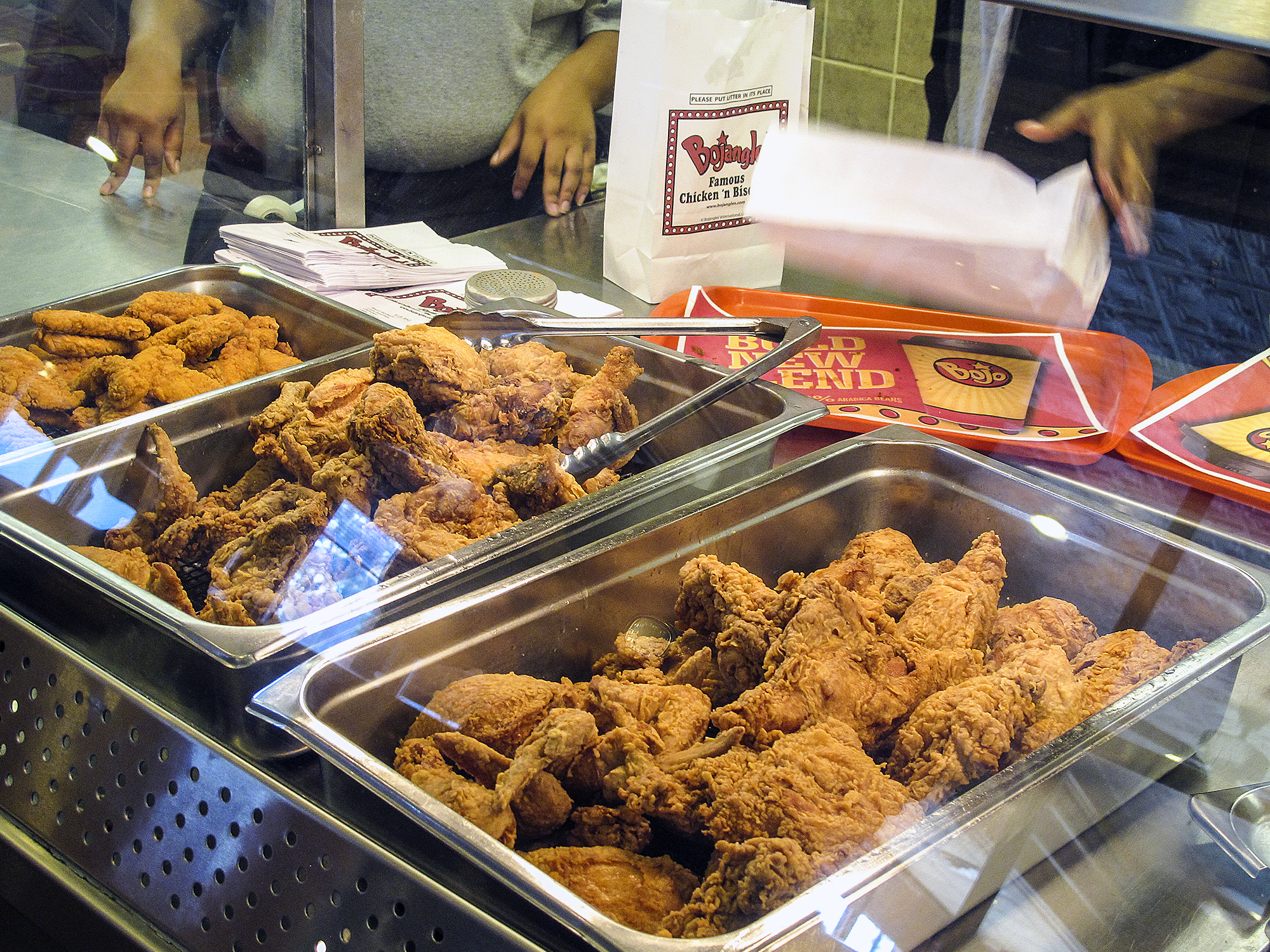 Bojangles, Oxford North Carolina - Bojangles pictures various